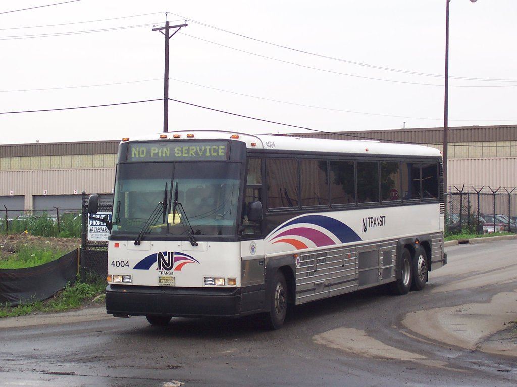 NJ Transit MCI D4000 hybrid bus #4004 pulls out of the Ironbound garage in Newark, New Jersey.